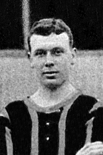 Bert Badger while with Brentford FC 1908/09